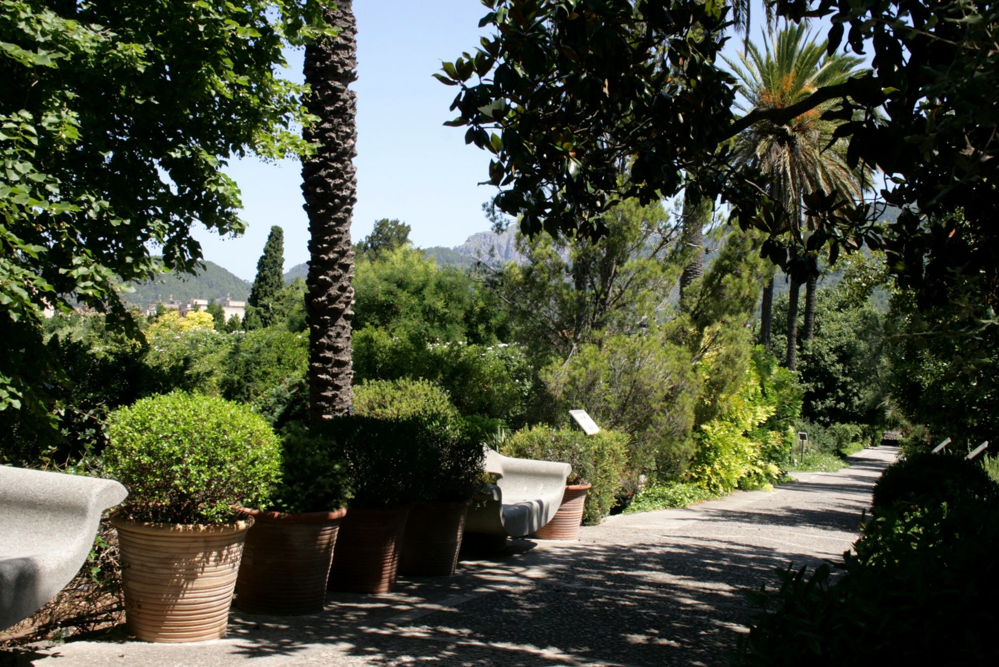 View along the main axis of the Botanic Garden of Sóller, Mallorca